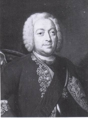 Cropped portrait of Francis Josias, Duke of Saxe-Coburg-Saalfeld (1697-1764)